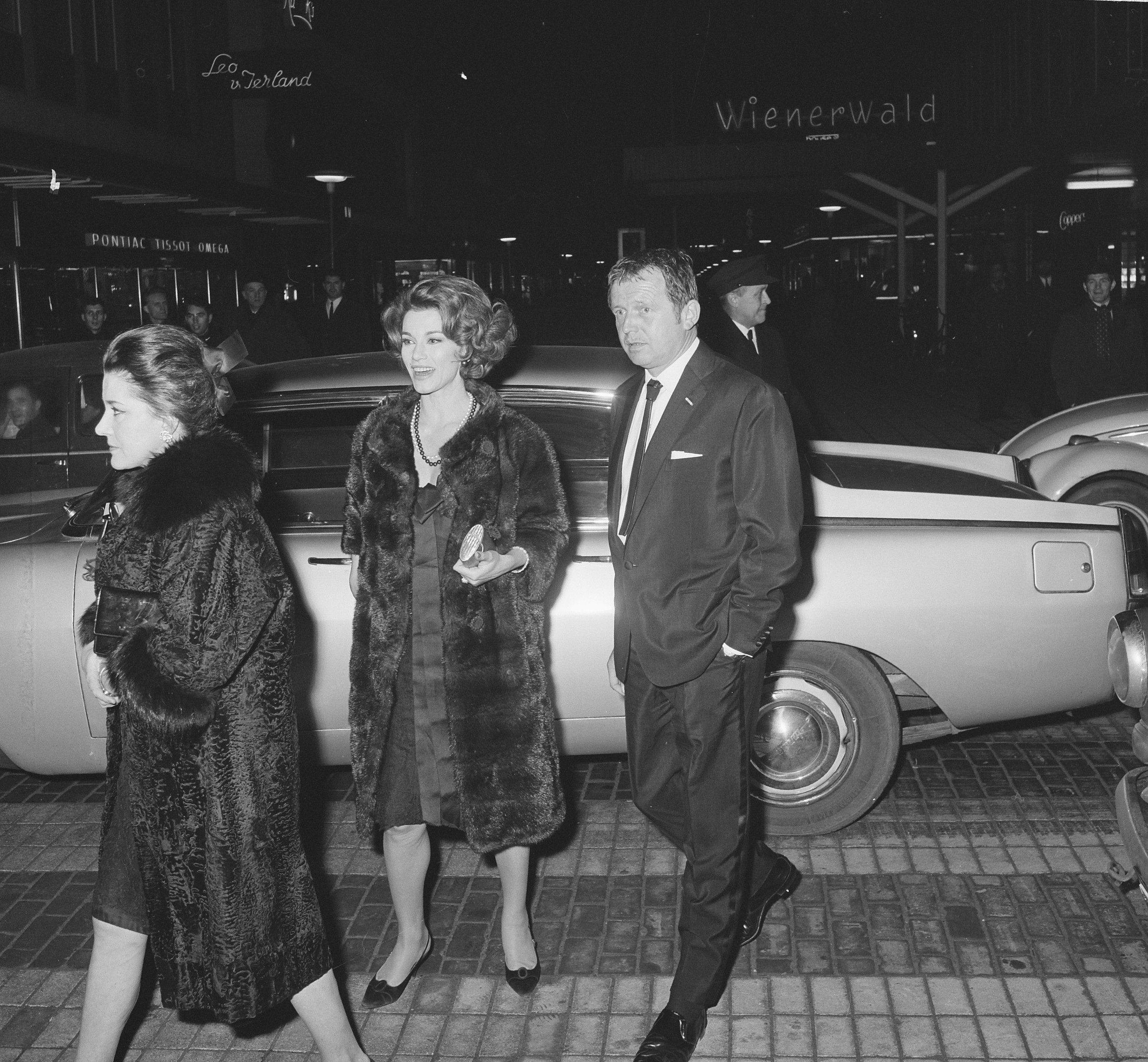 Linda Christian (centre) at the opening night of the Dutch film 10:32. Left: Dutch author Toon Hermans. Rotterdam, 26 January 1966